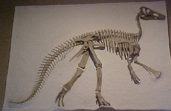 I took this photograph at the Peabody Museum, Yale University, in June 2000.